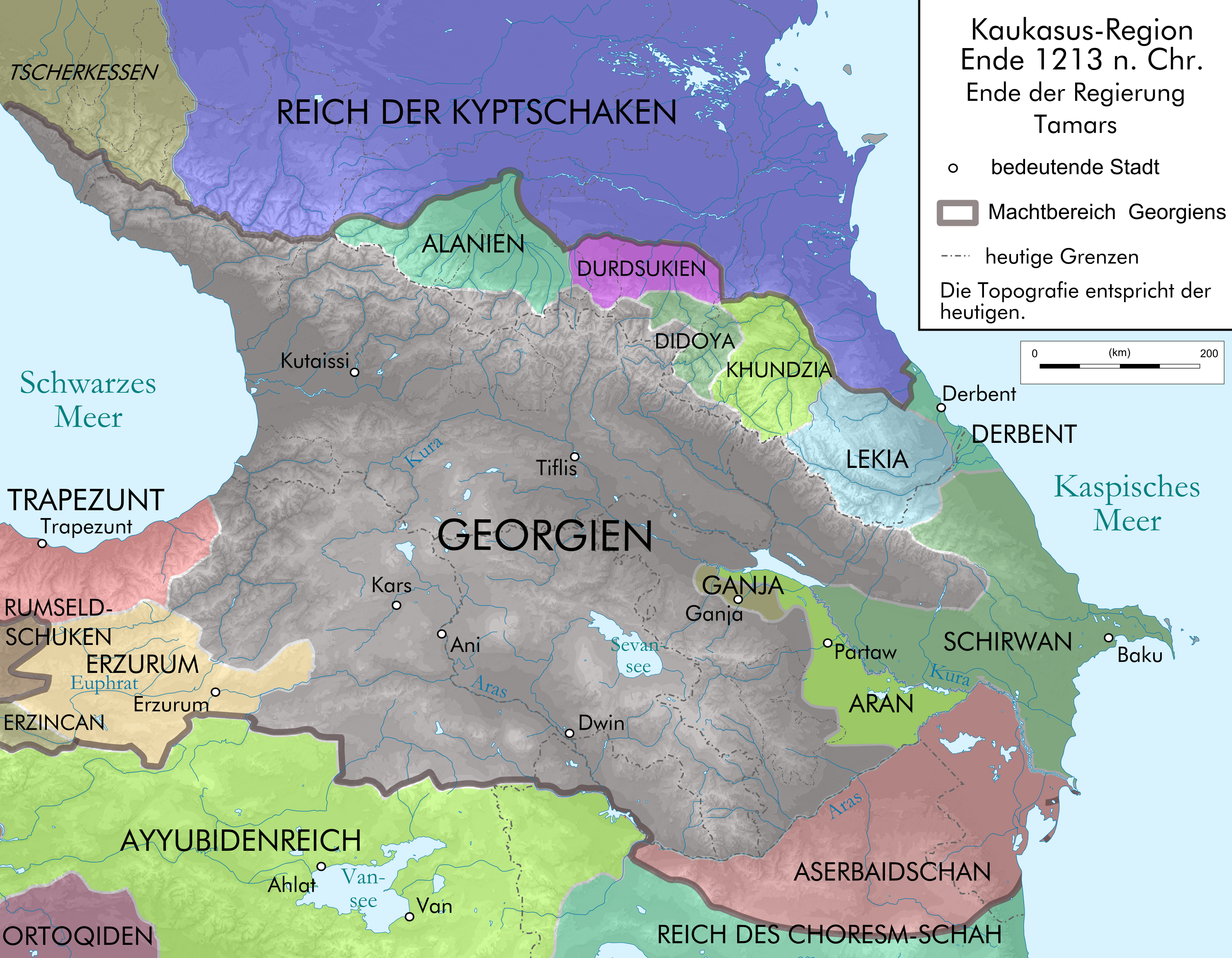 Map of Caucasus Region around 1213 AD in German.